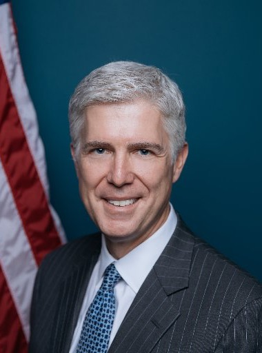 Portrait of Supreme Court nominee Neil Gorsuch of Colorado